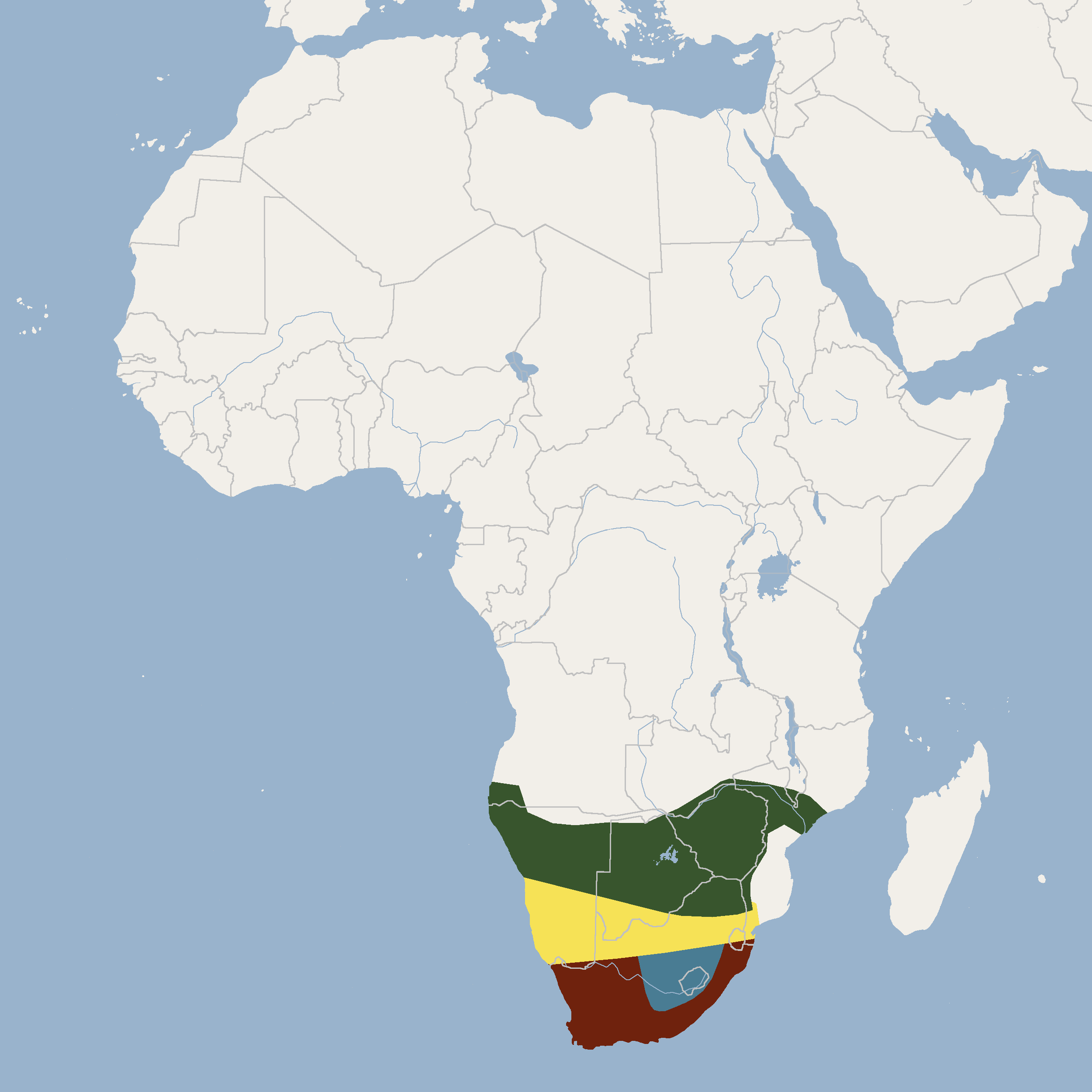 According to Happold, 2013